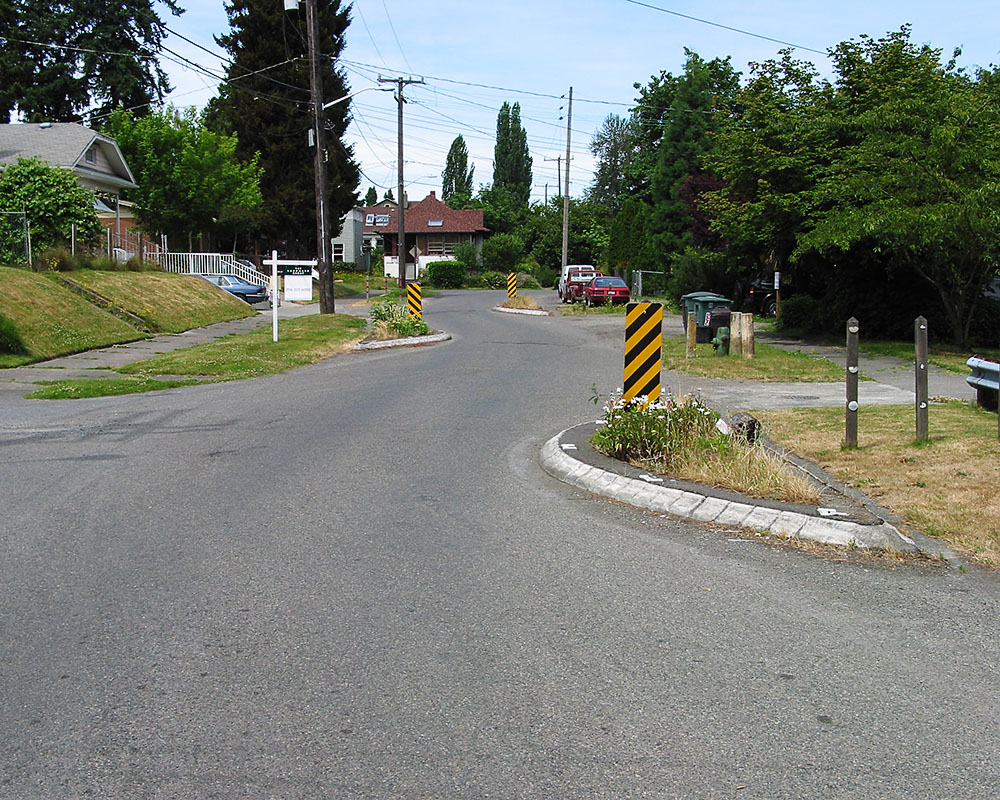 One-lane chicane (likely located in British Columbia, Canada)